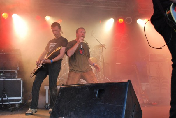 Red Zebra at the Juice Festival in Veurne, August 15, 2009